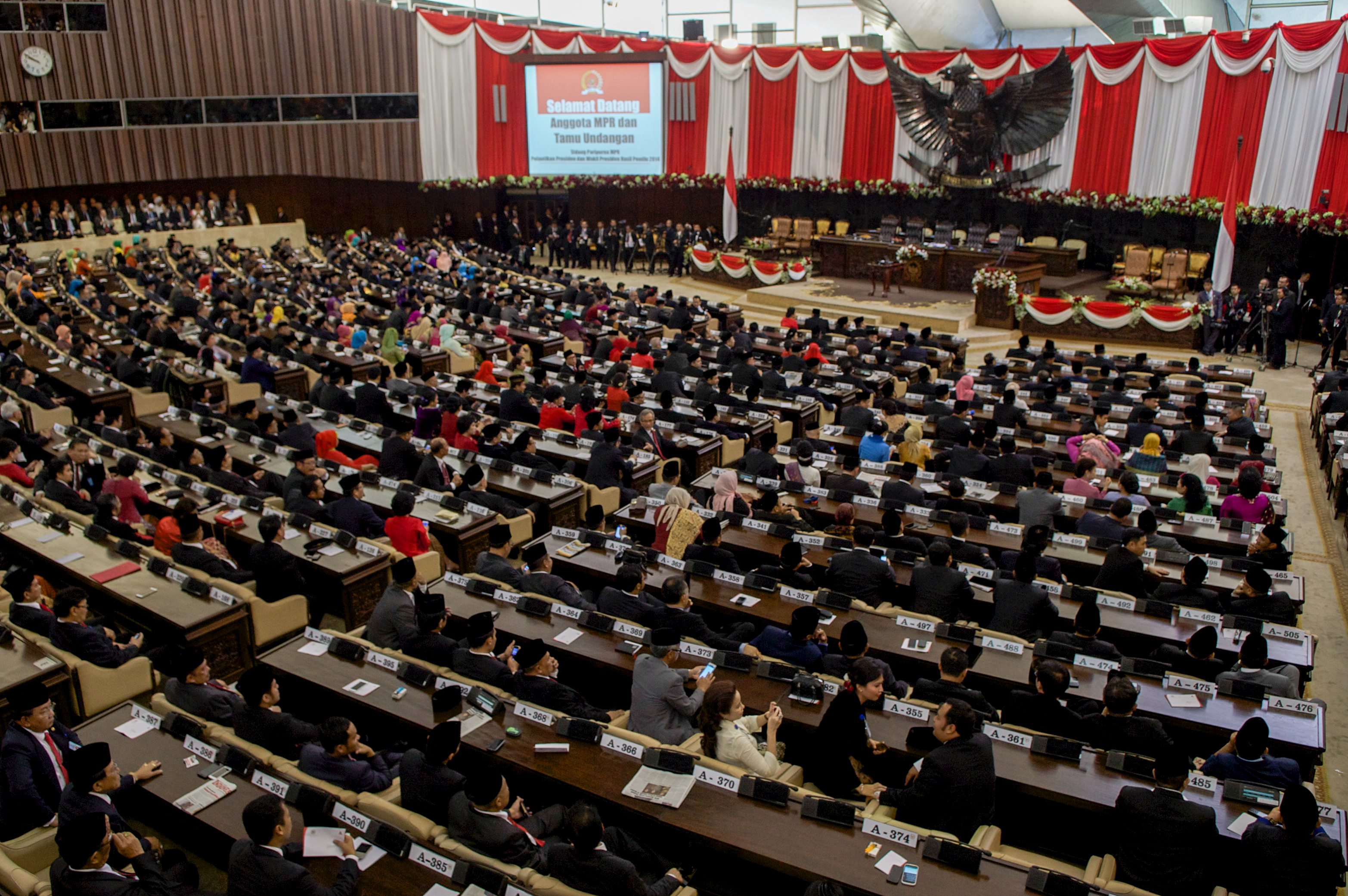 An overview of the Parliamentary Assembly in Jakarta, Indonesia at the inauguration of Indonesian President-elect Joko Widodo on October 20, 2014